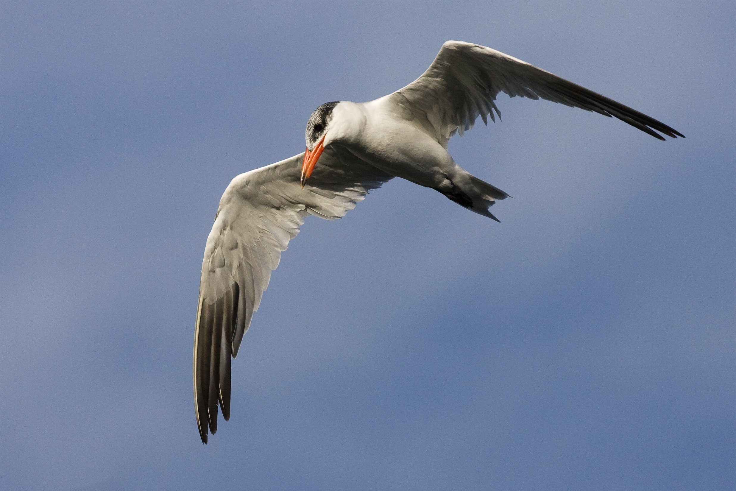 Caspian Tern (Hydroprogne caspia) at Morro Bay Marina